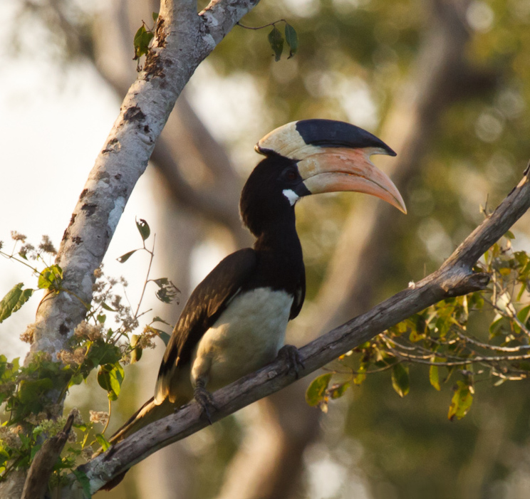 A Malabar Pied Hornbill at Wilpattu National Park, Sri Lanka.